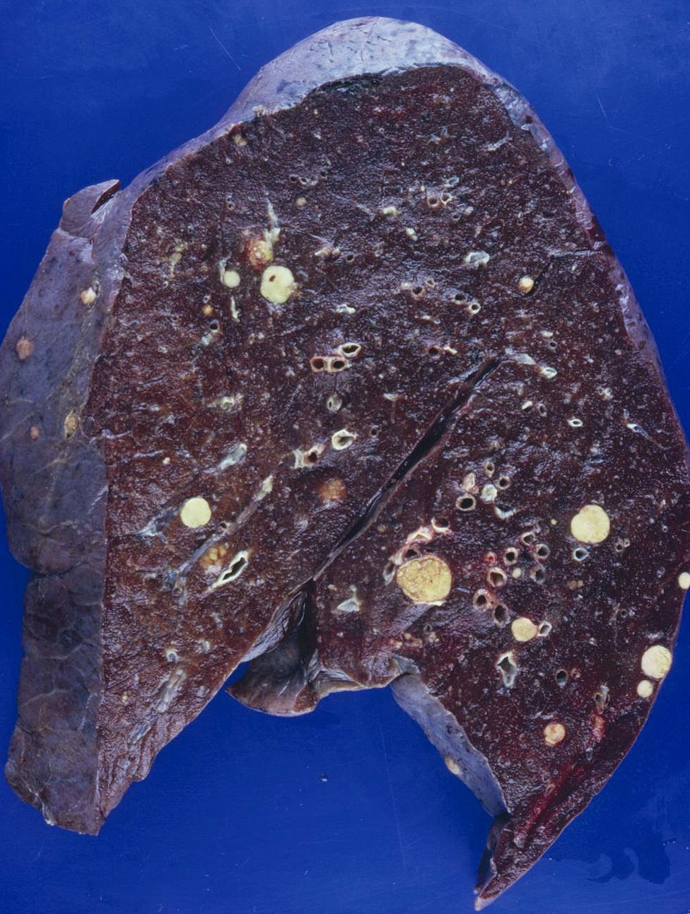 The production of bile by the tumor accounts for the yellowish color of the tumor nodules.